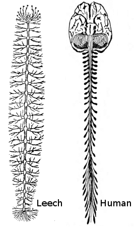 This image shows the nervous systems of a medical leech and a human, side by side, illustrating that the basic segmental structure of the bilaterian nervous system is apparent in both.